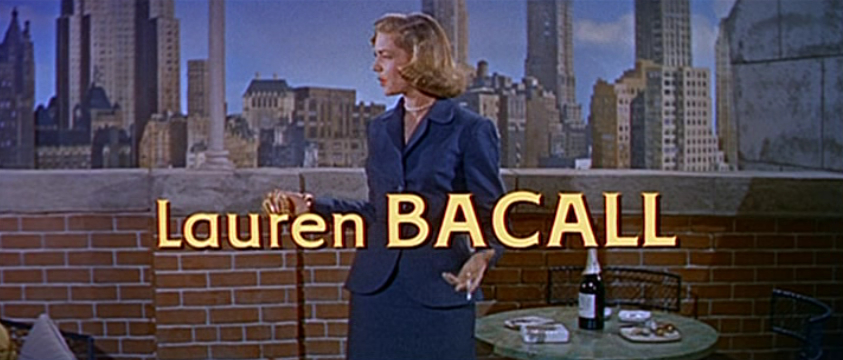 Cropped screenshot of Lauren Bacall in the trailer for the film How to Marry a Millionaire